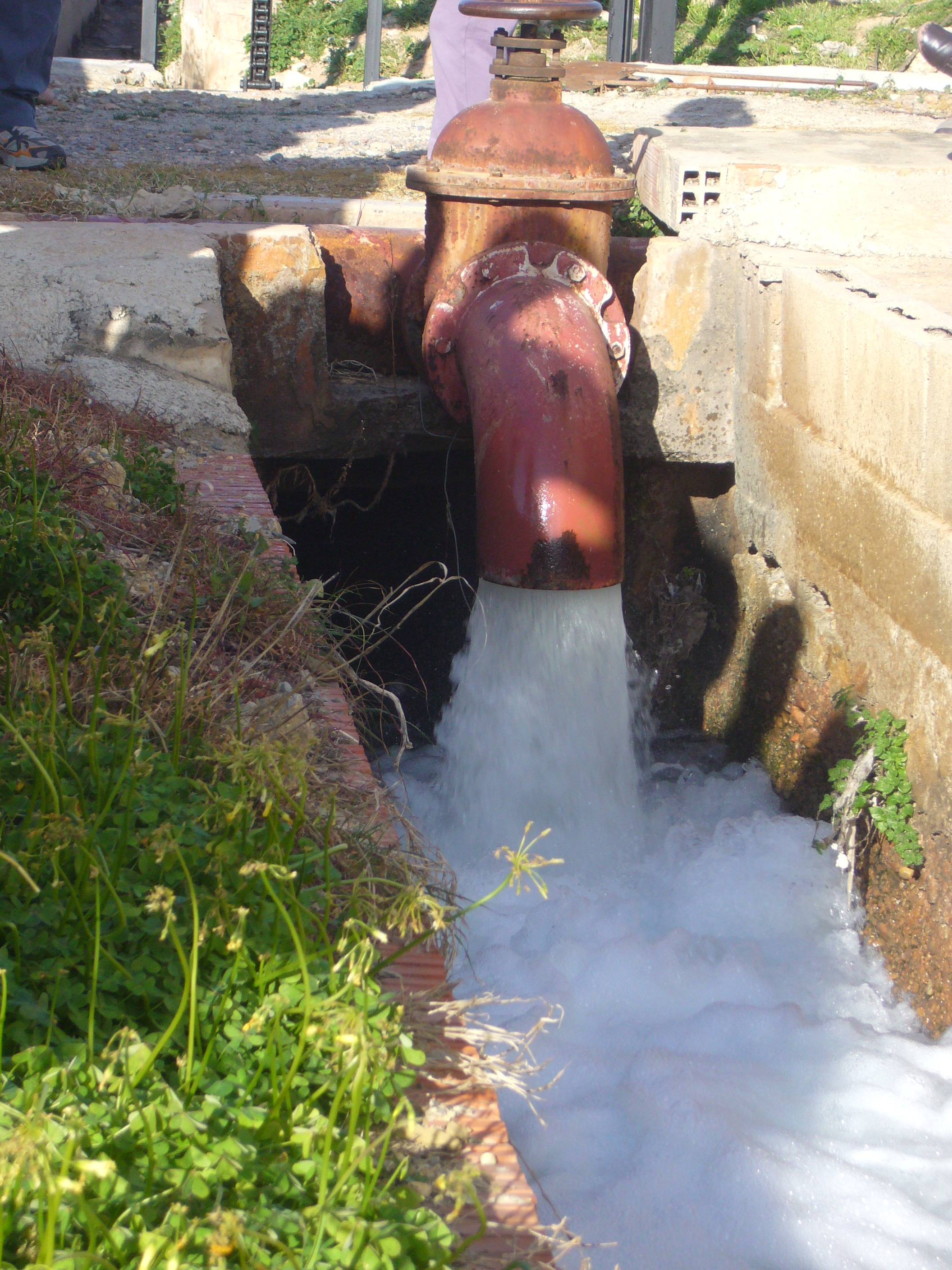 Water from the pistolero's Motor